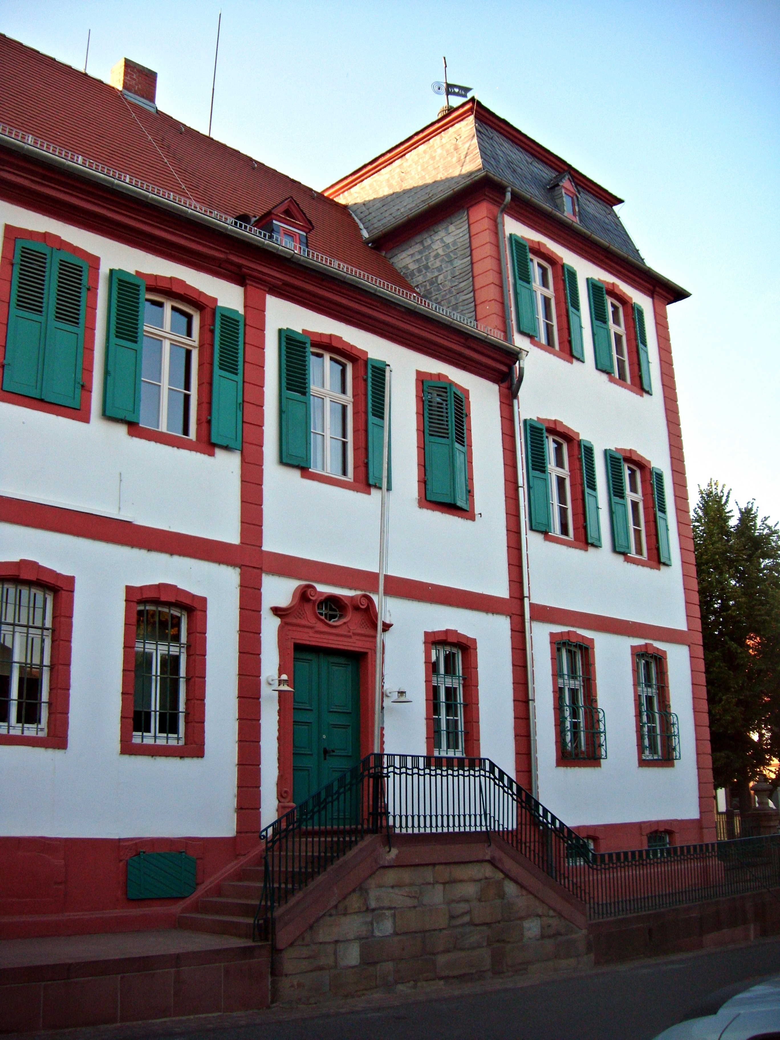 Schloss Kleinniedesheim